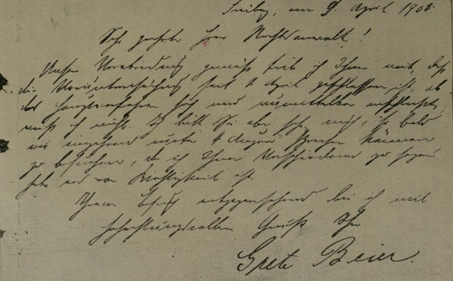 Sexually Abused child. The factual accuracy of this description or the file name is disputed. Reason: Please see the relevant discussion on the talk page.